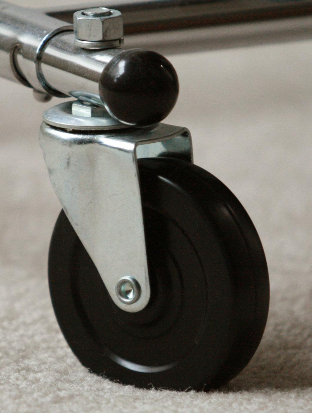 A swivel caster. This caster employs a solid, hard rubber wheel. It is used on a rolling clothing rack.